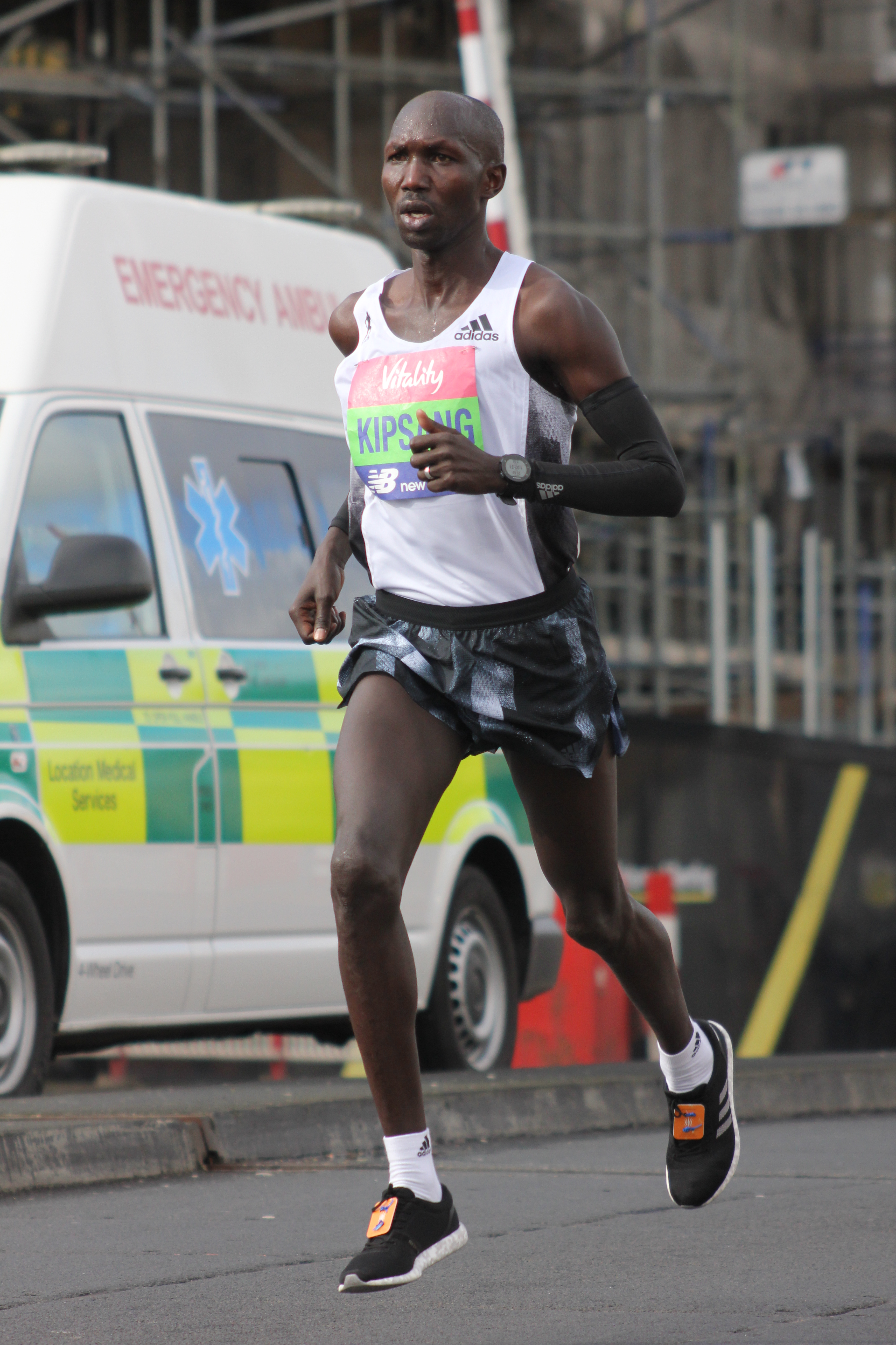 Male athlete, competing in London Half Marathon, 10 March 2019